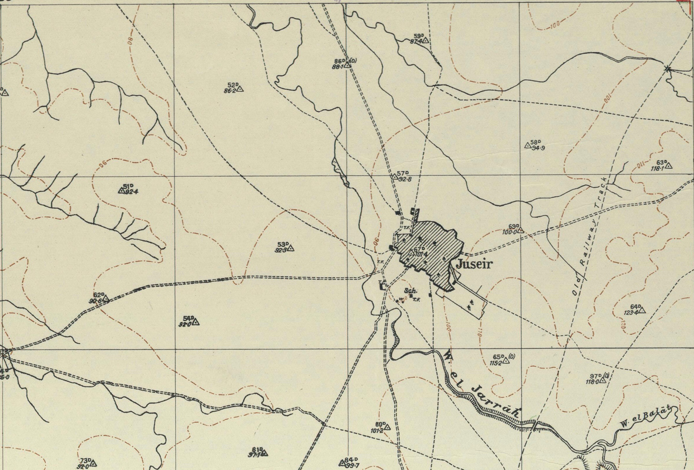 Jseir 1948 1:20,000